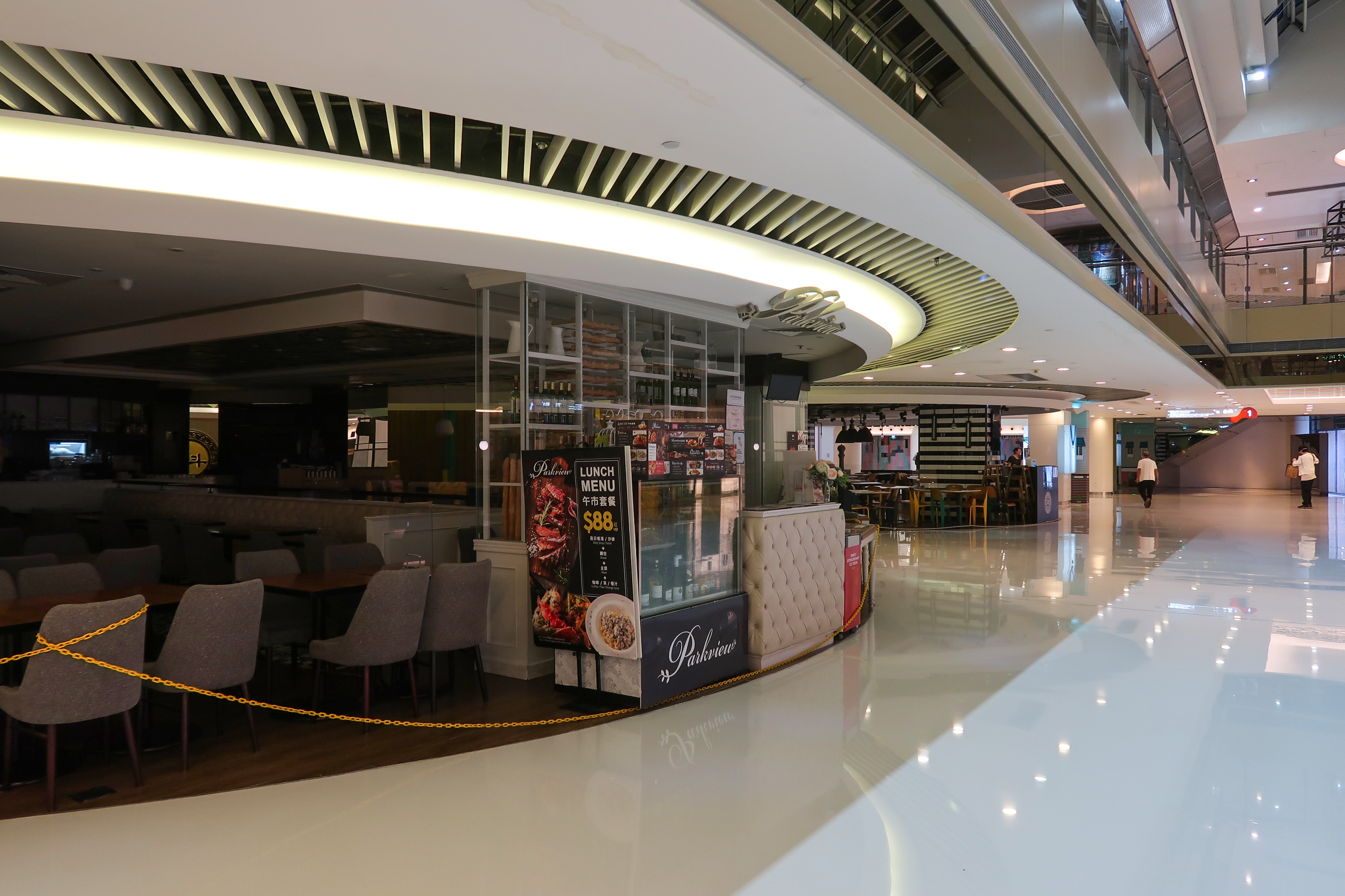 New Town Plaza restaurants closed